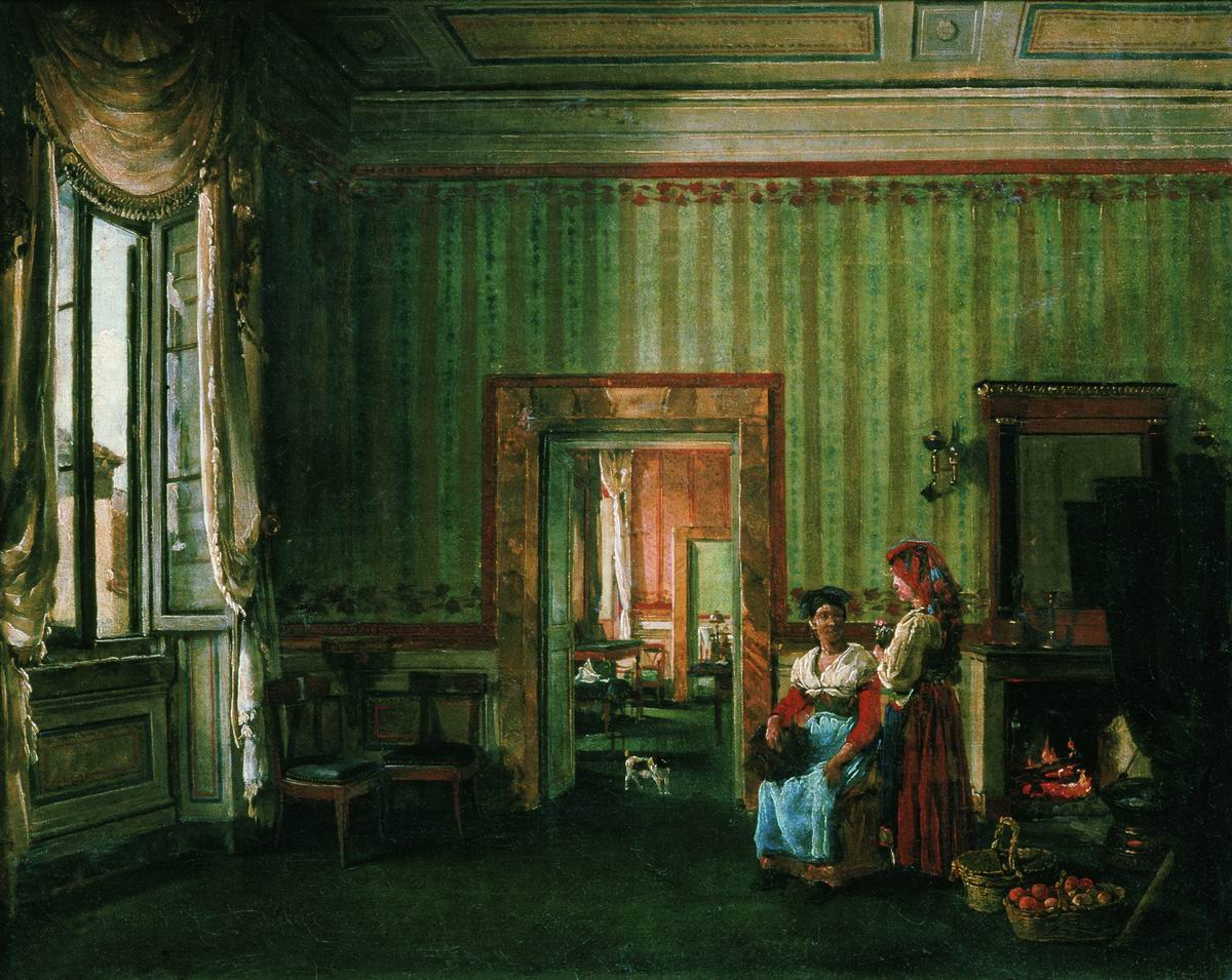 The dining room of the Galitzine House in Rome